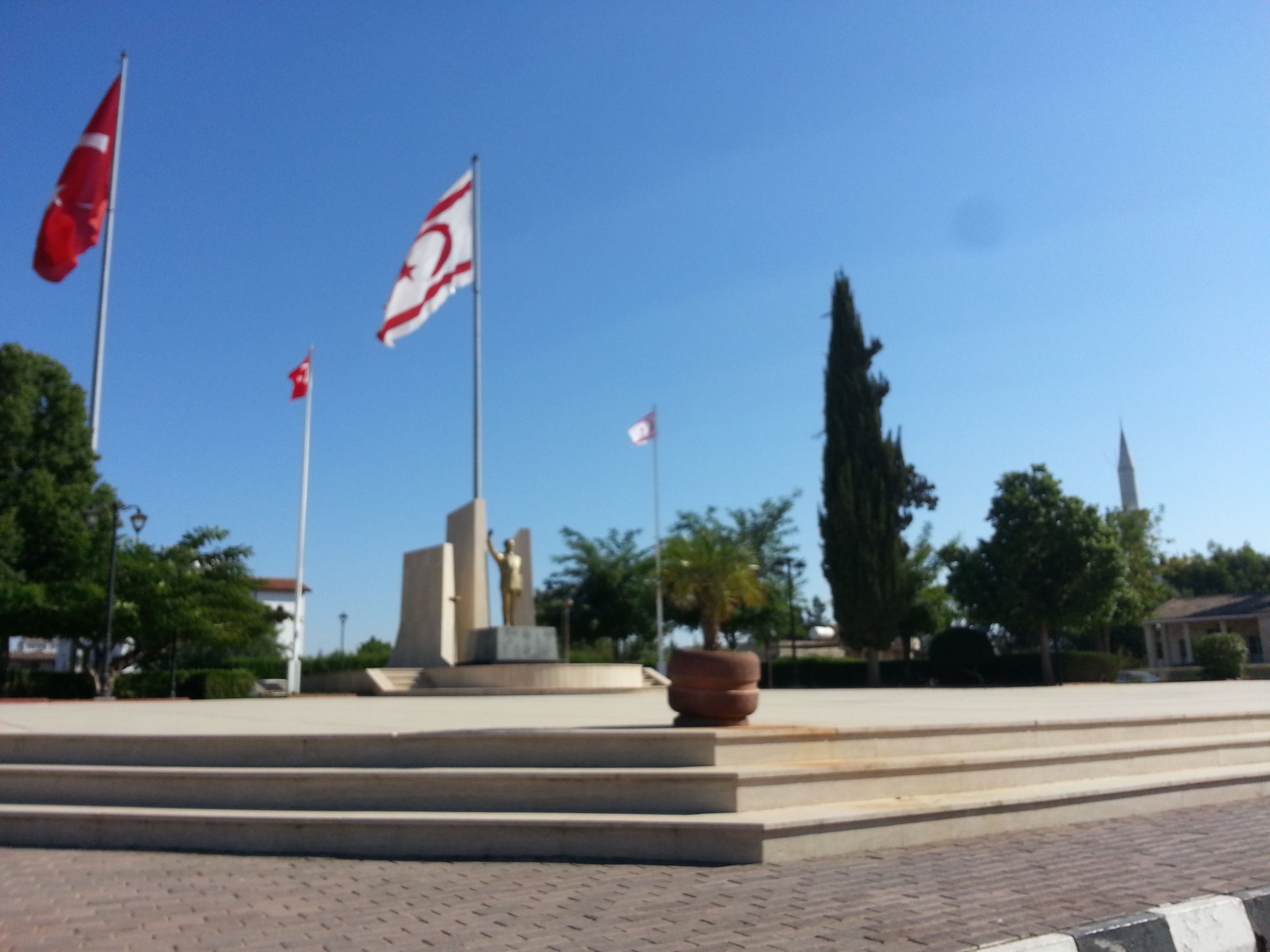 İnönü Square in Morphou, Northern Cyprus.